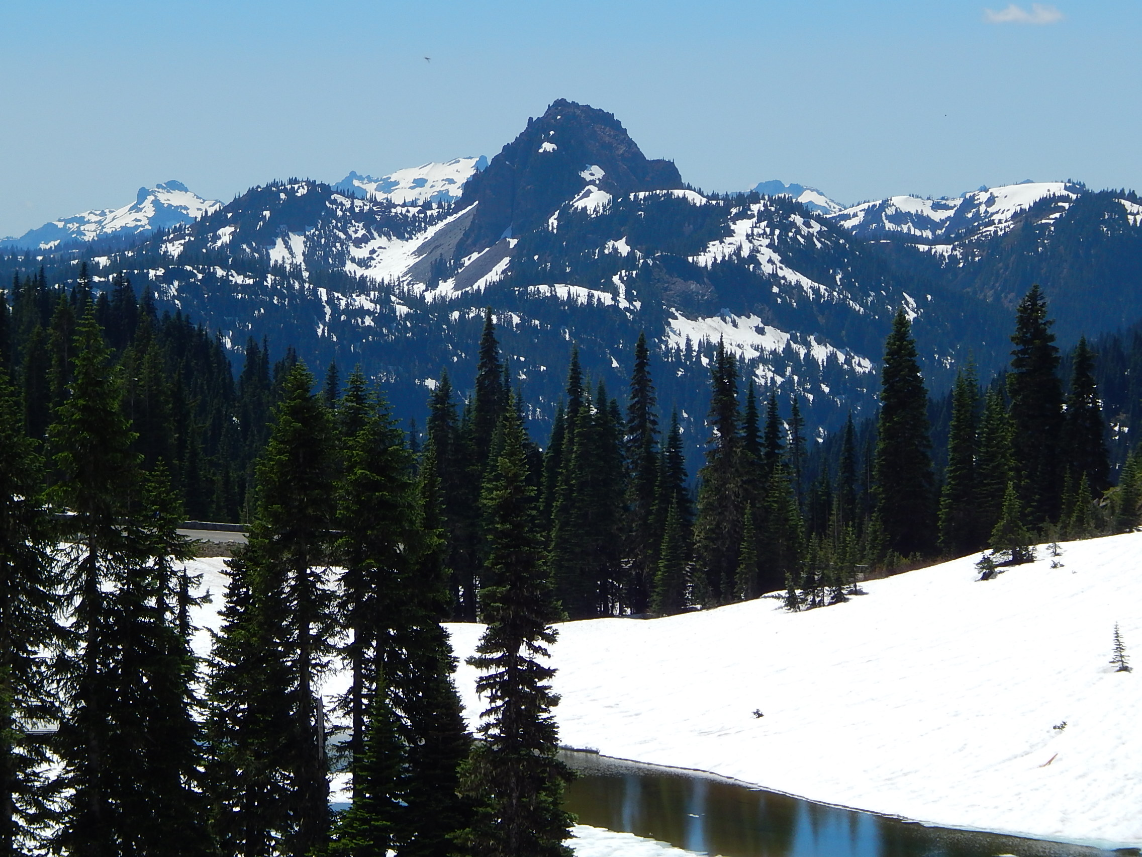 Double Peak seen from Tipsoo Lake overlook at Mount Rainier National Park